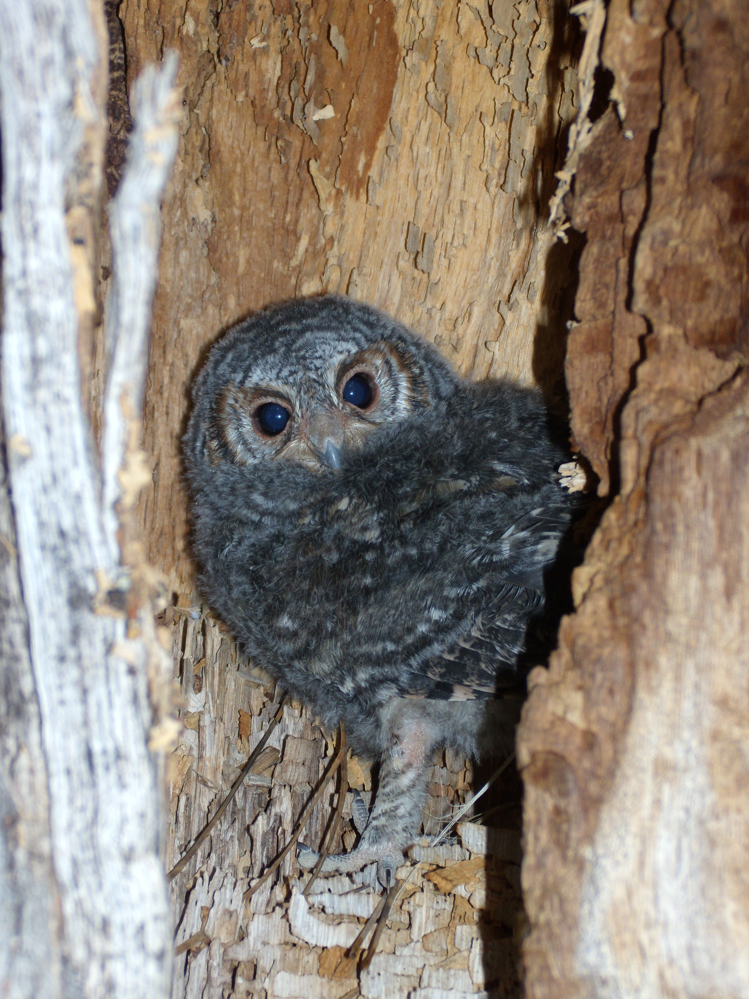 This juvenile flammulated owl (Psiloscops flammeolus) was found by firefighters in the hallow of a tree that had been struck by lightning and caught fire. Before they cut down the tree, they moved the young owl to a nearby tree. Photo taken July 23, 2010. Credit: USDA Forest Service, Coconino National Forest.